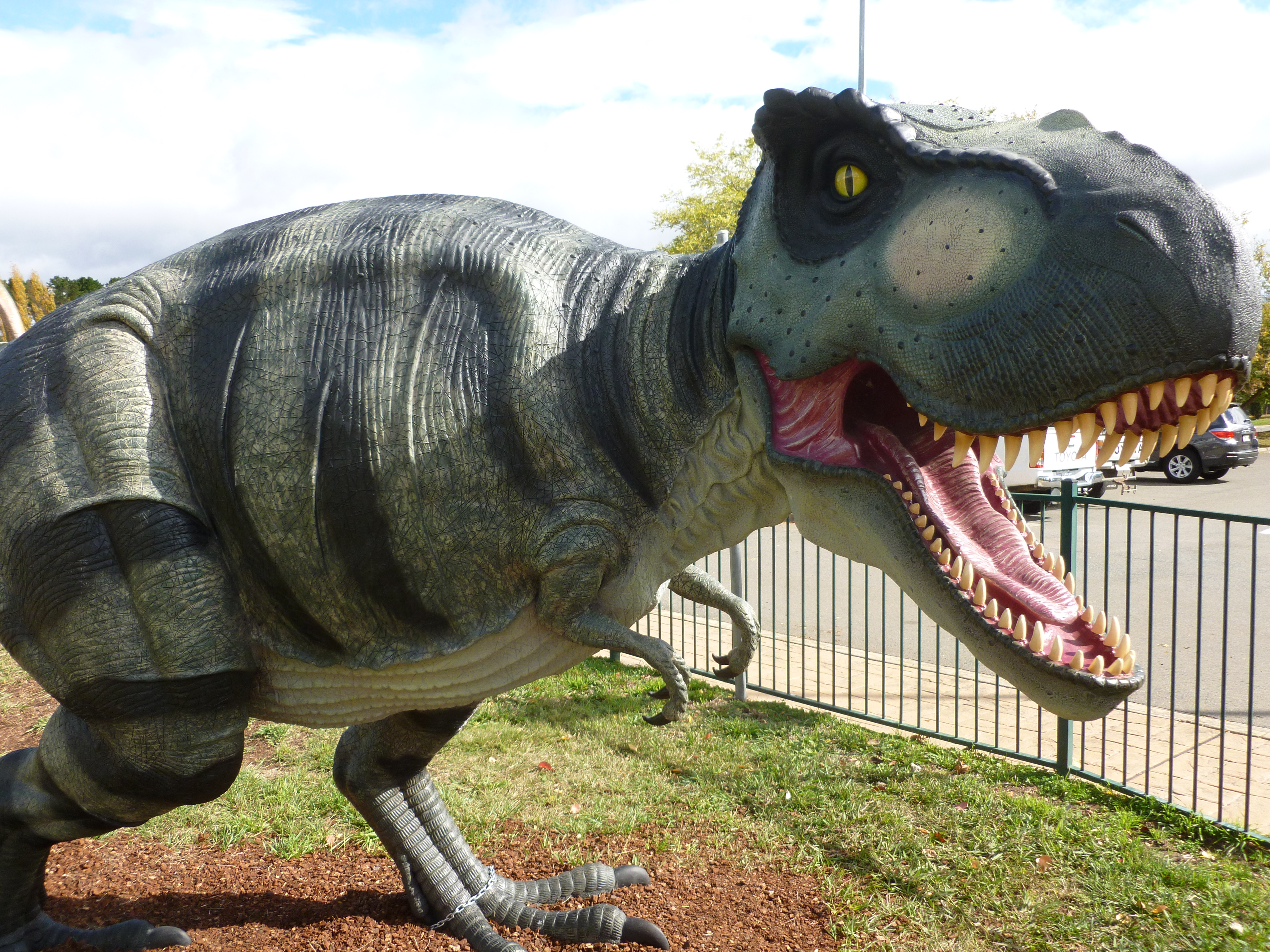 Tyrannosaurus rex, a prominent feature in the dinosaur garden at the National Dinosaur Museum